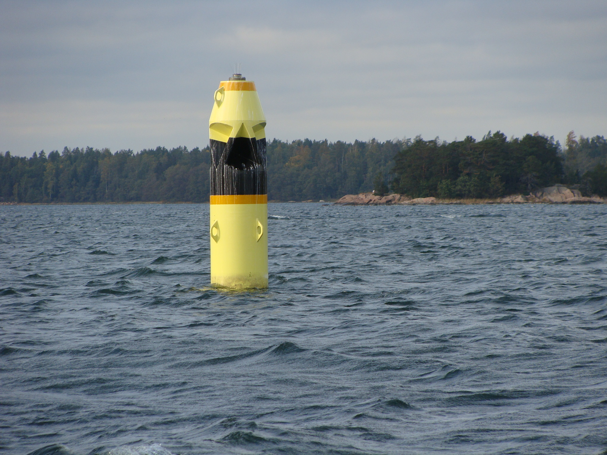 West cardinal ice buoy southwest of Plåtgrynnorna islets in Eastern Archipelago Sea in Finland.